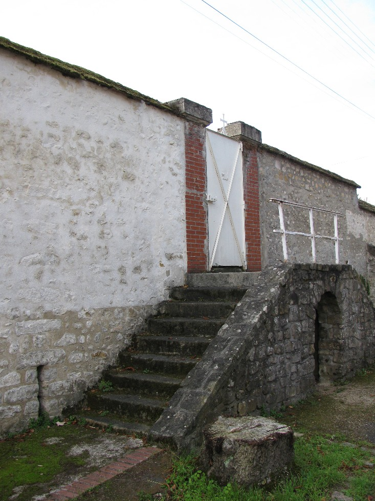 Stairway with small platform from the yard of the Carmelite monastery of Avon.